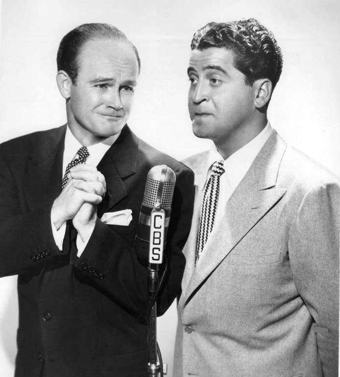 Photo of Bob Sweeney (left) and Hal March (right) from their radio program "Sweeney and March". Sweeney went on to become a film director, while March continued as an actor.